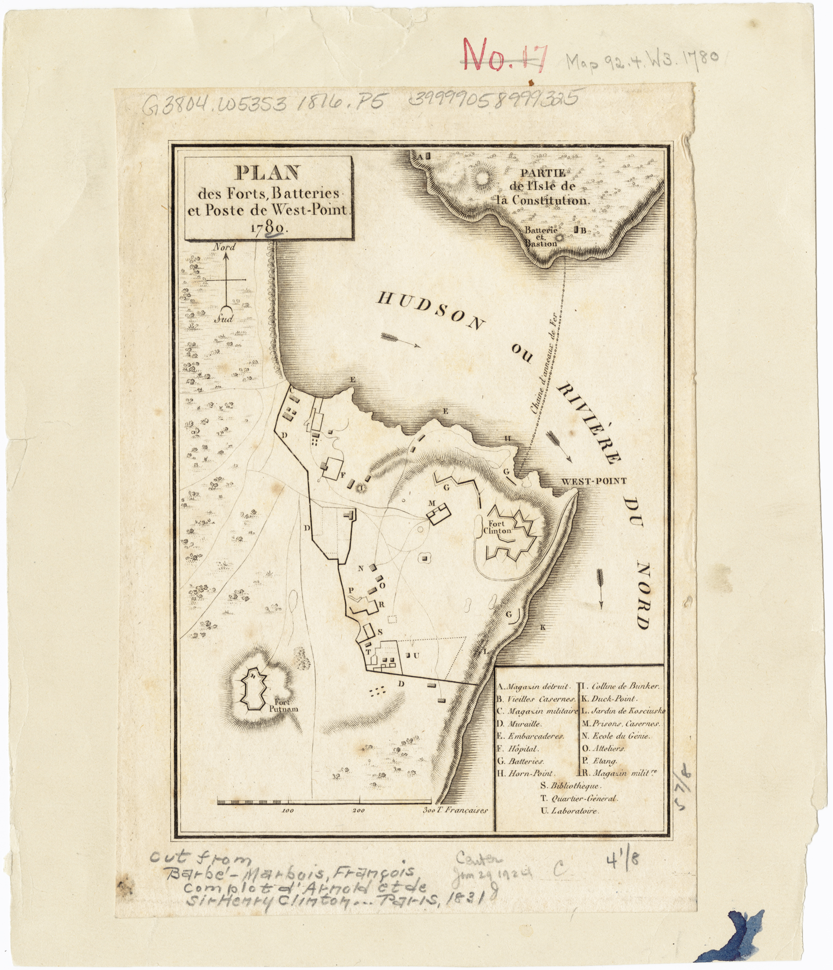 Zoom into this map at . Publisher: P. Didot Date: [1816] Location: West Point (N.Y.) Scale: Scale [ca. 1:13,000]. Call Number: G3804.W53S3 1816.P5